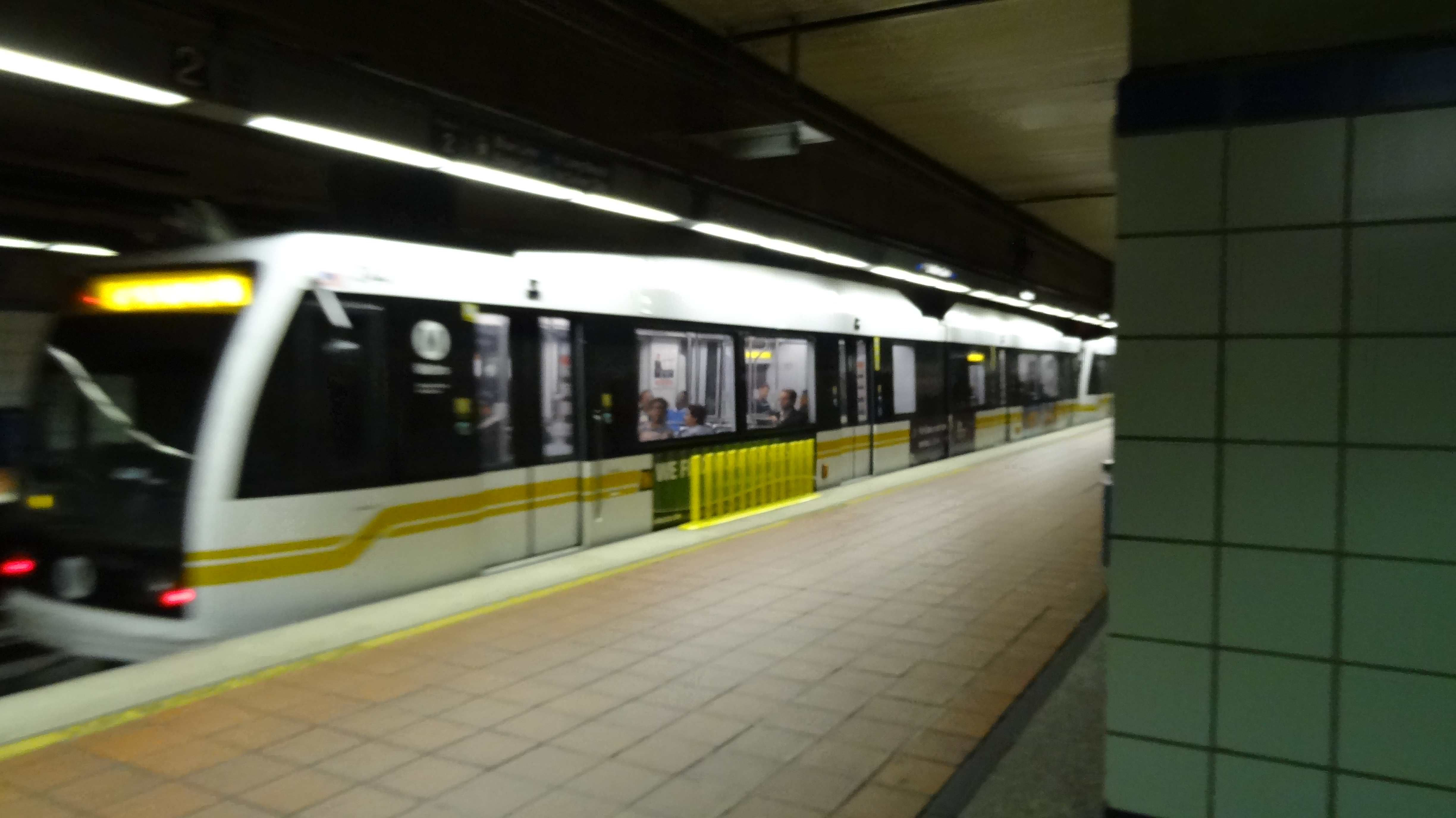 Metro Blue Line P2000 train departing 7th Street/ Metro Center Station towards Long Beach. These trains were previously used on the Metro Gold Line.